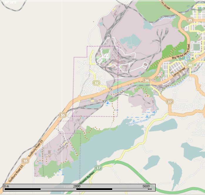 Map showing the extent of the Inco (now Vale) Railway around Sudbury, Ontario. (The Vale properties are in purple on the map).